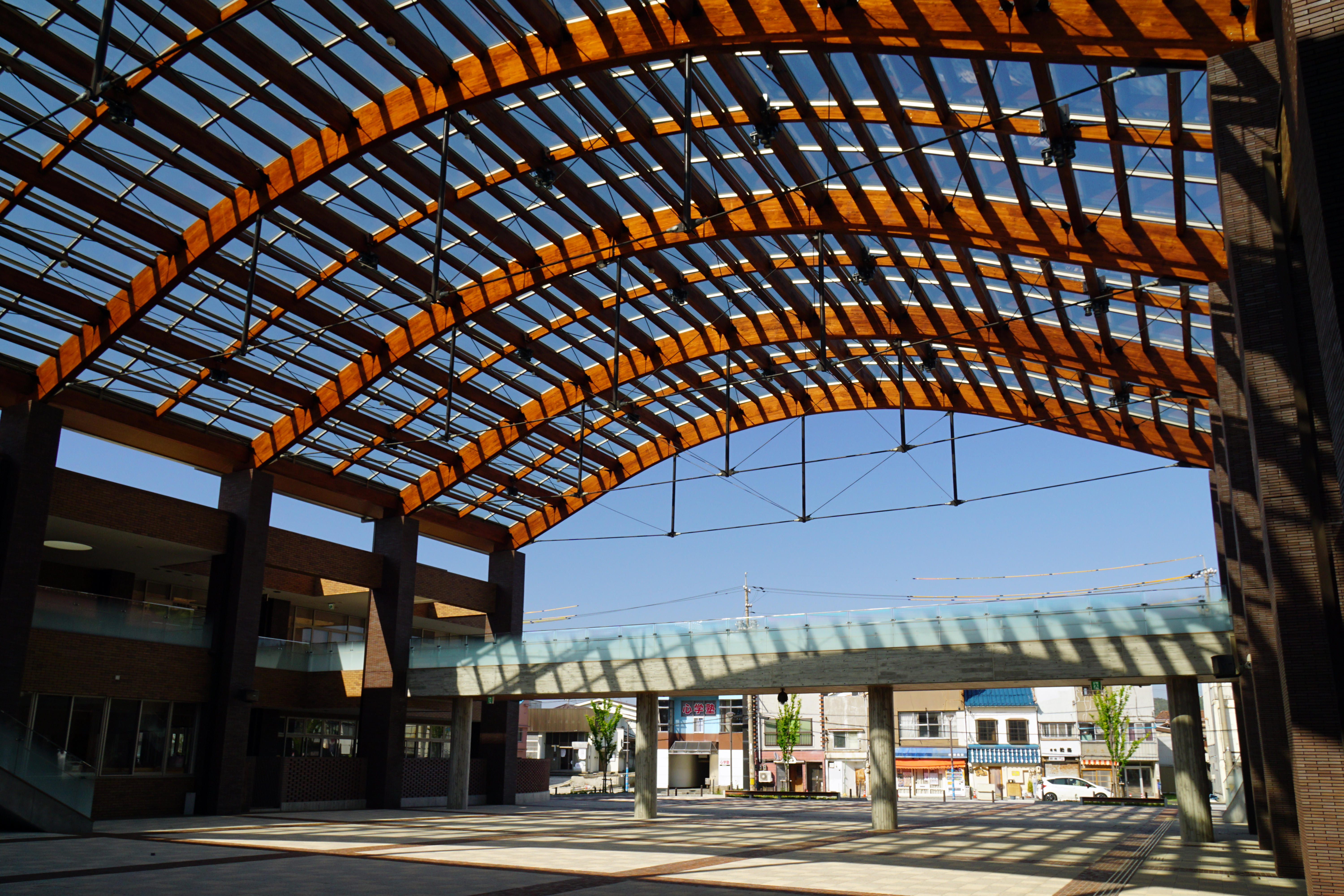 Pallet_Gotsu, Gotsu, Shimane prefecture, Japan